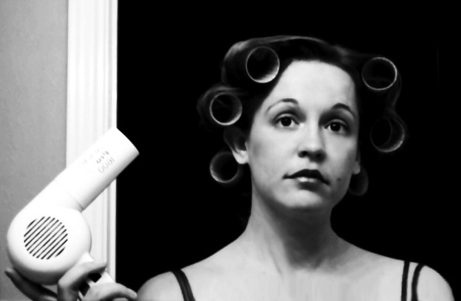 A self-portrait of the Bloggess, also known as Jenny Lawson, an Internet blogger.